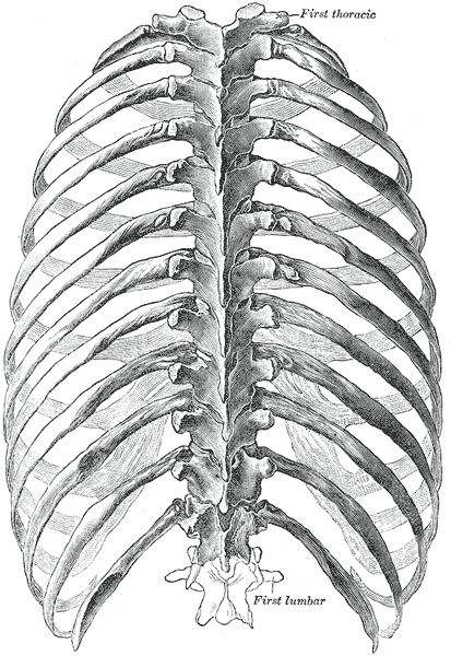 The thorax from behind. (Spalteholz.)